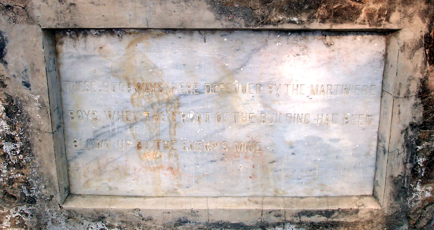 the inscription is self explanatory. "These doorways were defended by the Martiniere boys when the front of the building had been blown up by the enemy's mine"